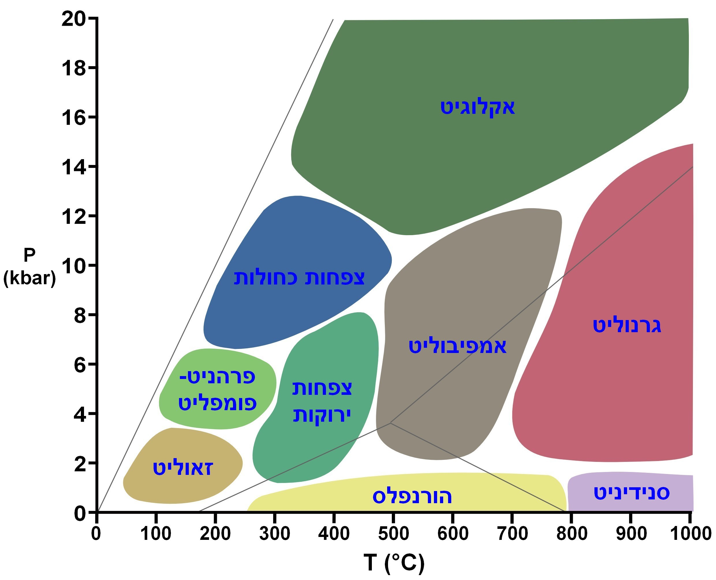 metamorphic facies, Hebrew